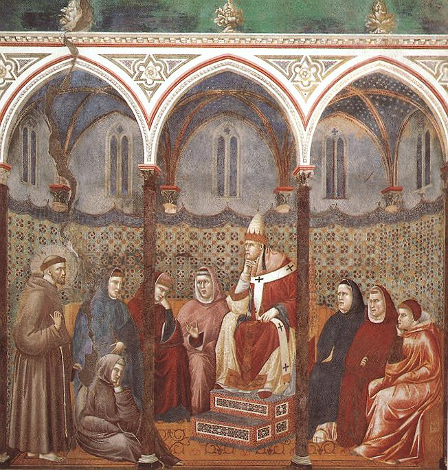 Legend of St Francis